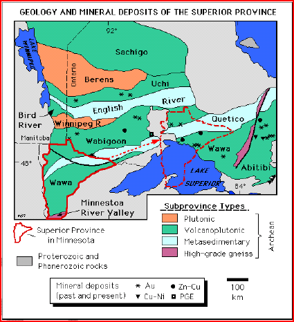 A map showing the Wawa, Quetico and Wabigoon subprovinces of the Superior Province.